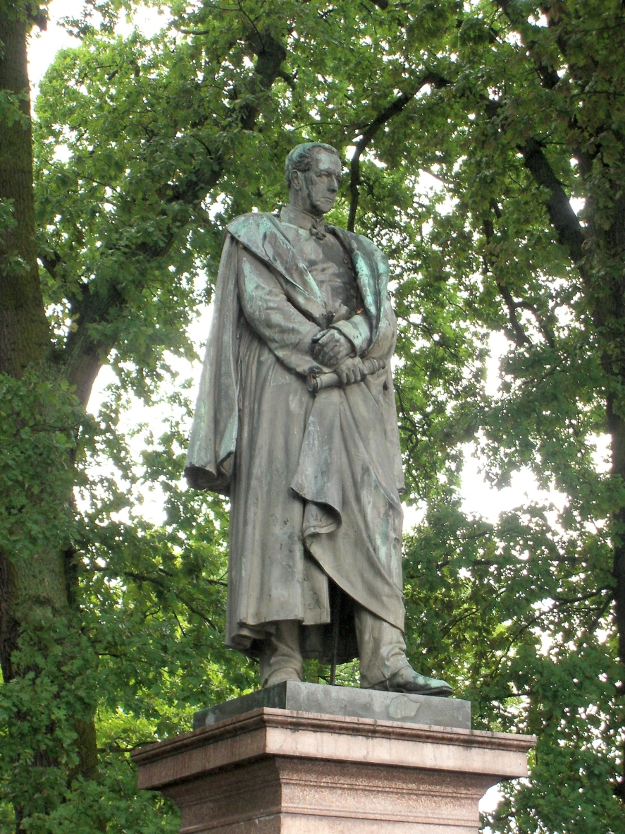 Memorial of Helmuth Karl Bernhard von Moltke in Parchim.